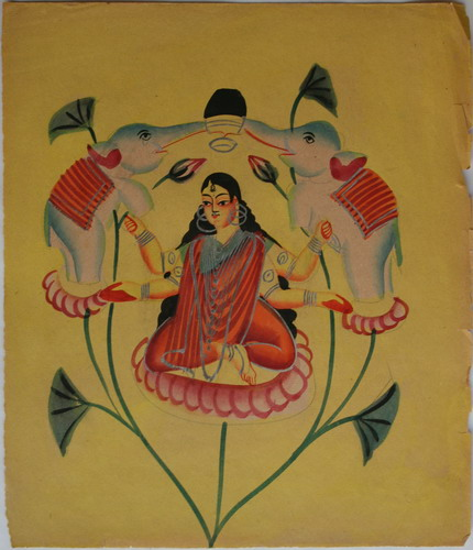 Kamala